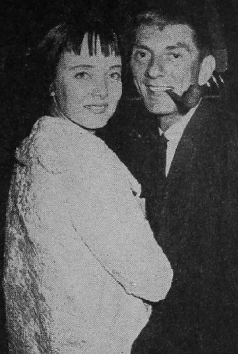 Photo of producer Aaron Spelling and his wife at the time, Actress Carolyn Jones.